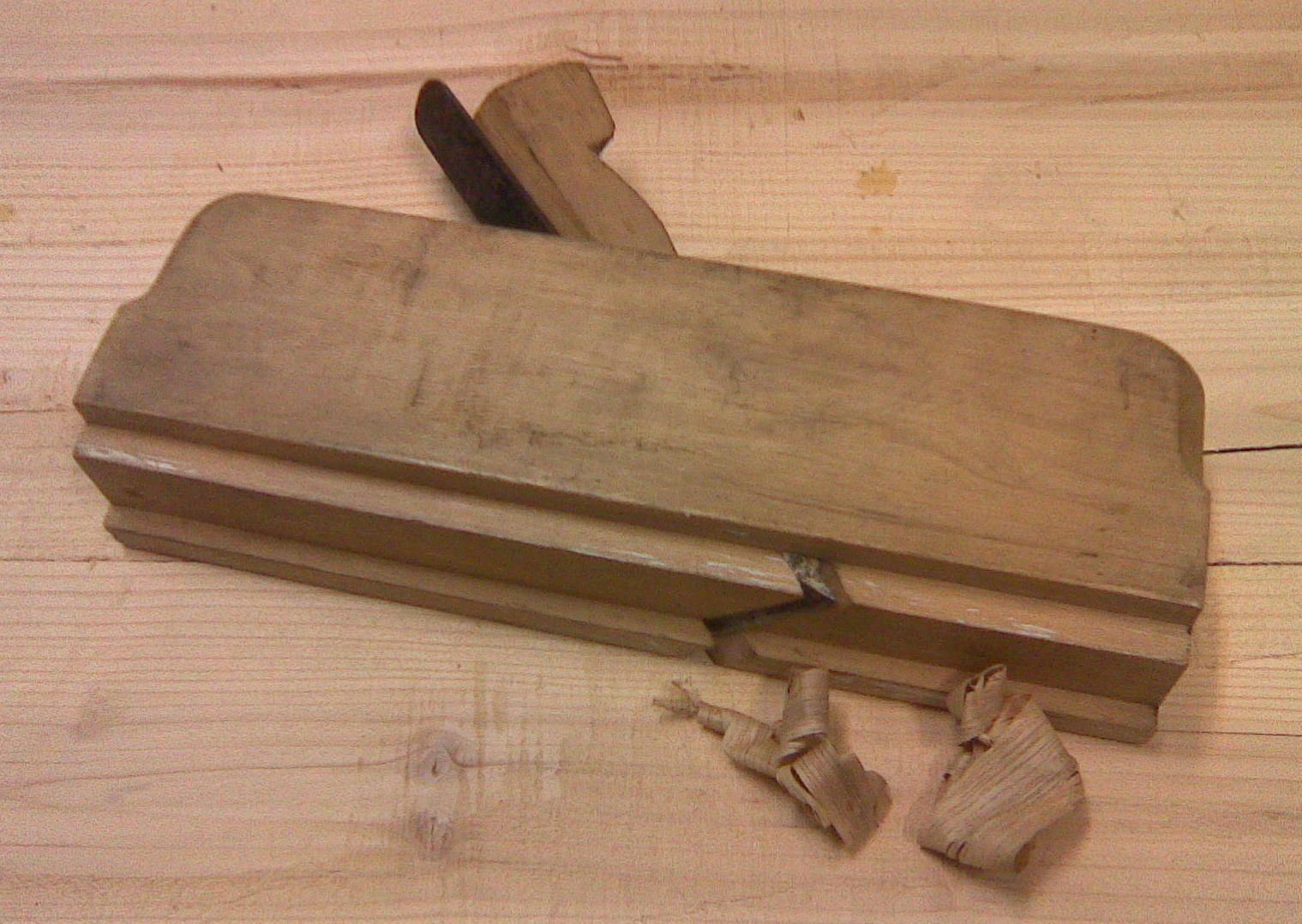 Plane